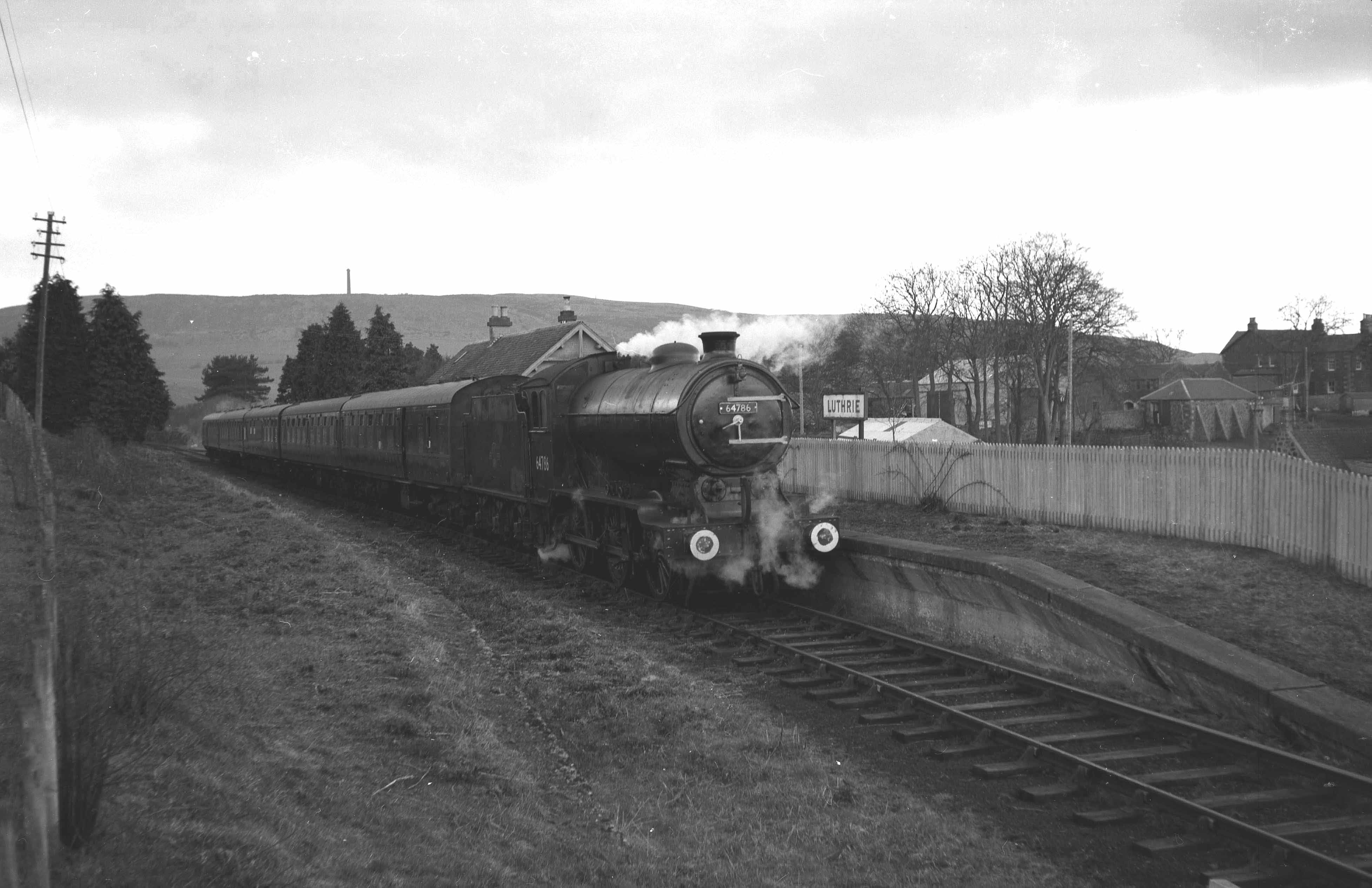 Steam engine & carriages standing at Luthrie Railway Station